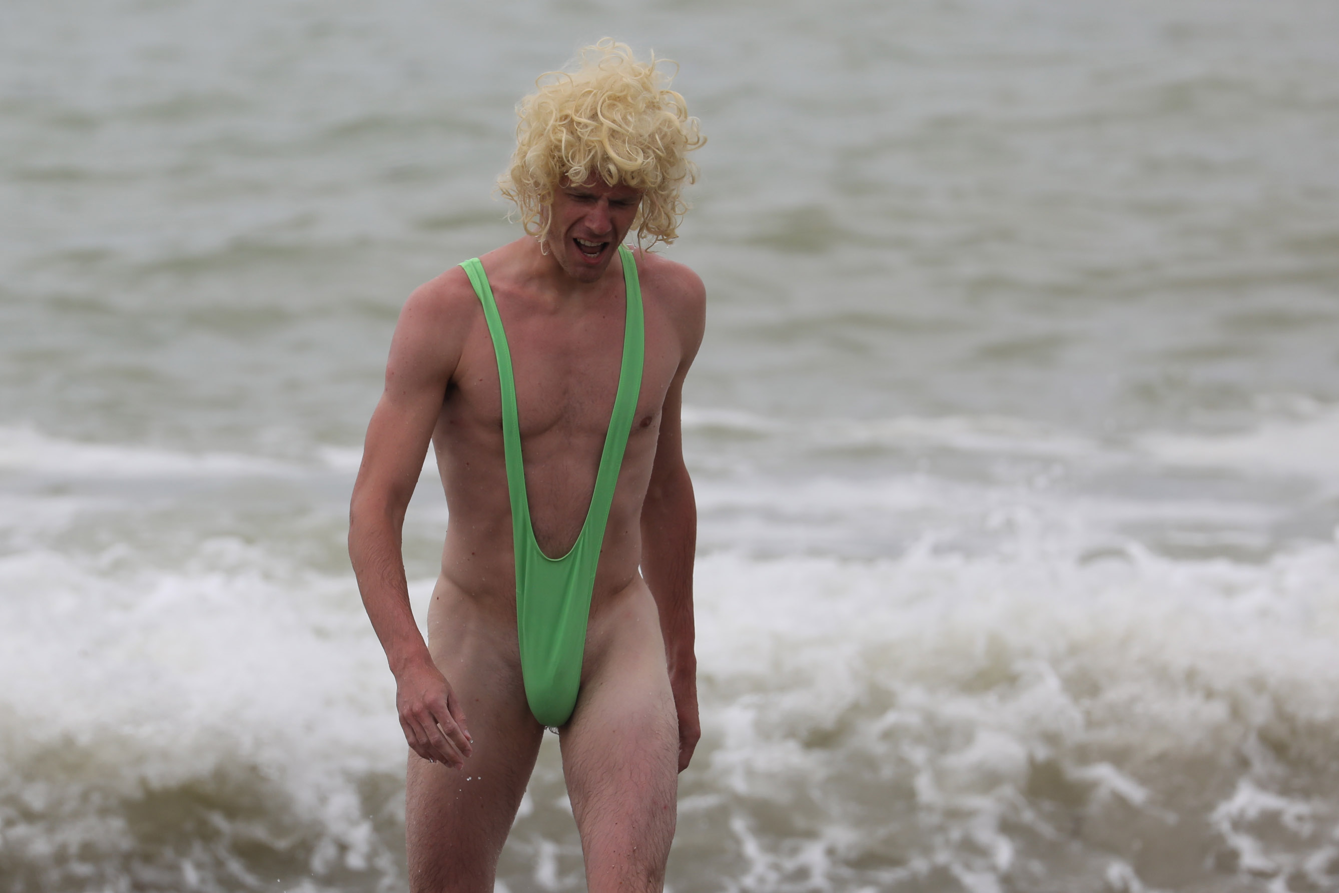 Strange and funny man wearing a green mankini like Borat Sagdiyev on the beach of Dieppe in France - with a blond wig from the sea